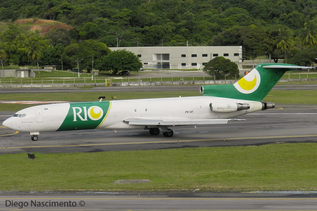 PR-IOF RIO Linhas Aéreas Boeing 727-214(A)(F)